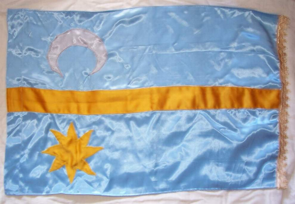 Flag of Székely